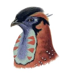 Tragopan wattles: * Fig. 5. Wattle of Satyr Tragopan (Tragopan satyra)